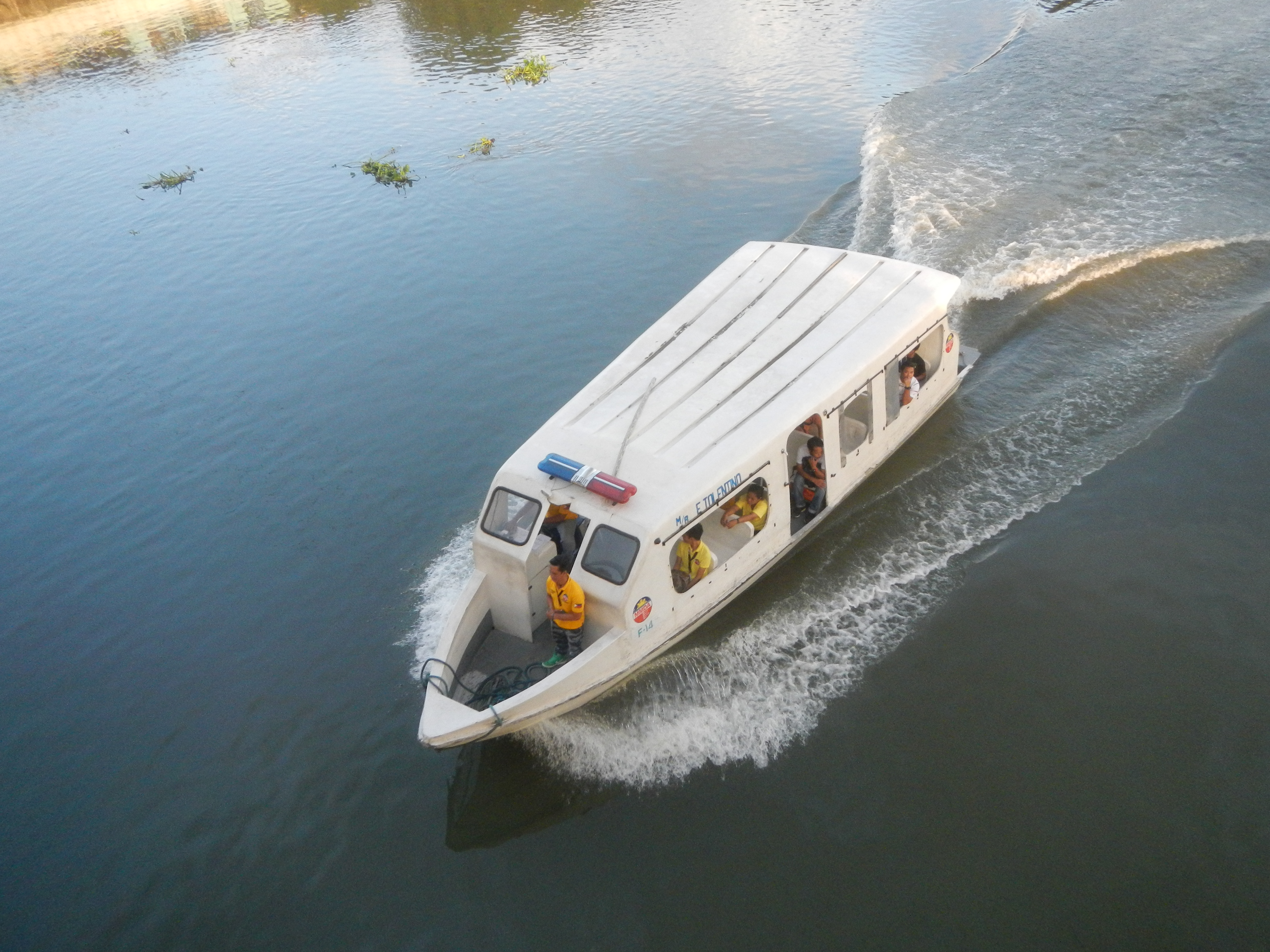 Lambingan Bridge 14°35'11"N 121°1'11"E Pasig River List of crossings of the Pasig River Maynilad Water Services under the Metropolitan Manila Development Authority Lambingan Pasig River Ferry Station (Manila) 14°35'13"N 121°1'11"E Pasig River Ferry Service in the List of barangays of Metro Manila Legislative districts of Manila 6th District, Barangays 888, 889, 890, 891 and 892, Zone 98, District VI, Barangays 893, 894 and 895, Zone 99, District VI, Kalentong, Santa Ana, Manila City of Manila; beside List of barangays of Metro Manila, Barangay Pag-Asa 14°35'24"N 121°1'30"E beside Harapin ang Bukas 14°35'31"N 121°1'34"E beside Burol 14°35'23"N 121°1'39"E Mandaluyong City (Note: Judge Florentino Floro, the owner, to repeat, Donor Florentino Floro of all these photos hereby donate gratuitously, freely and unconditionally all these photos to and for Wikimedia Commons, exclusively, for public use of the public domain, and again without any condition whatsoever).